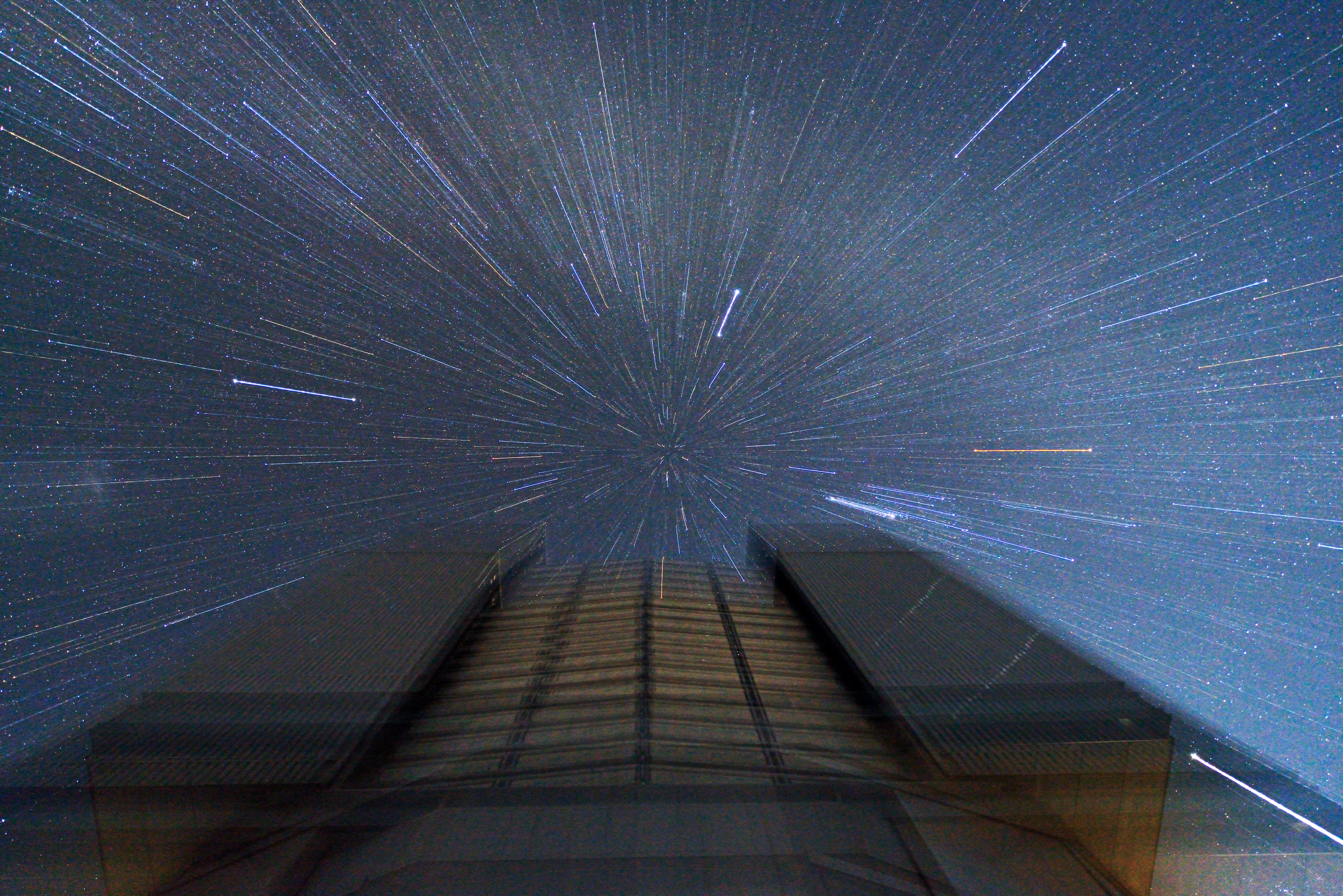 This unusual picture shows one of the VLT's Unit Telescopes. During the exposure the camera was zoomed so that the stars, and the rest of the image, are smeared radially to create a strange and striking effect.